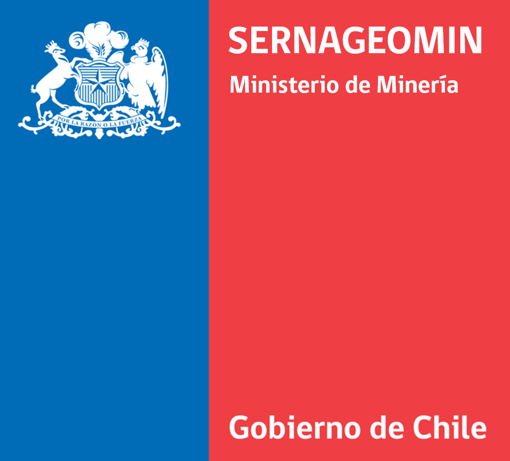 Institutional logo of the National Service of Geology and Mining of Chile.